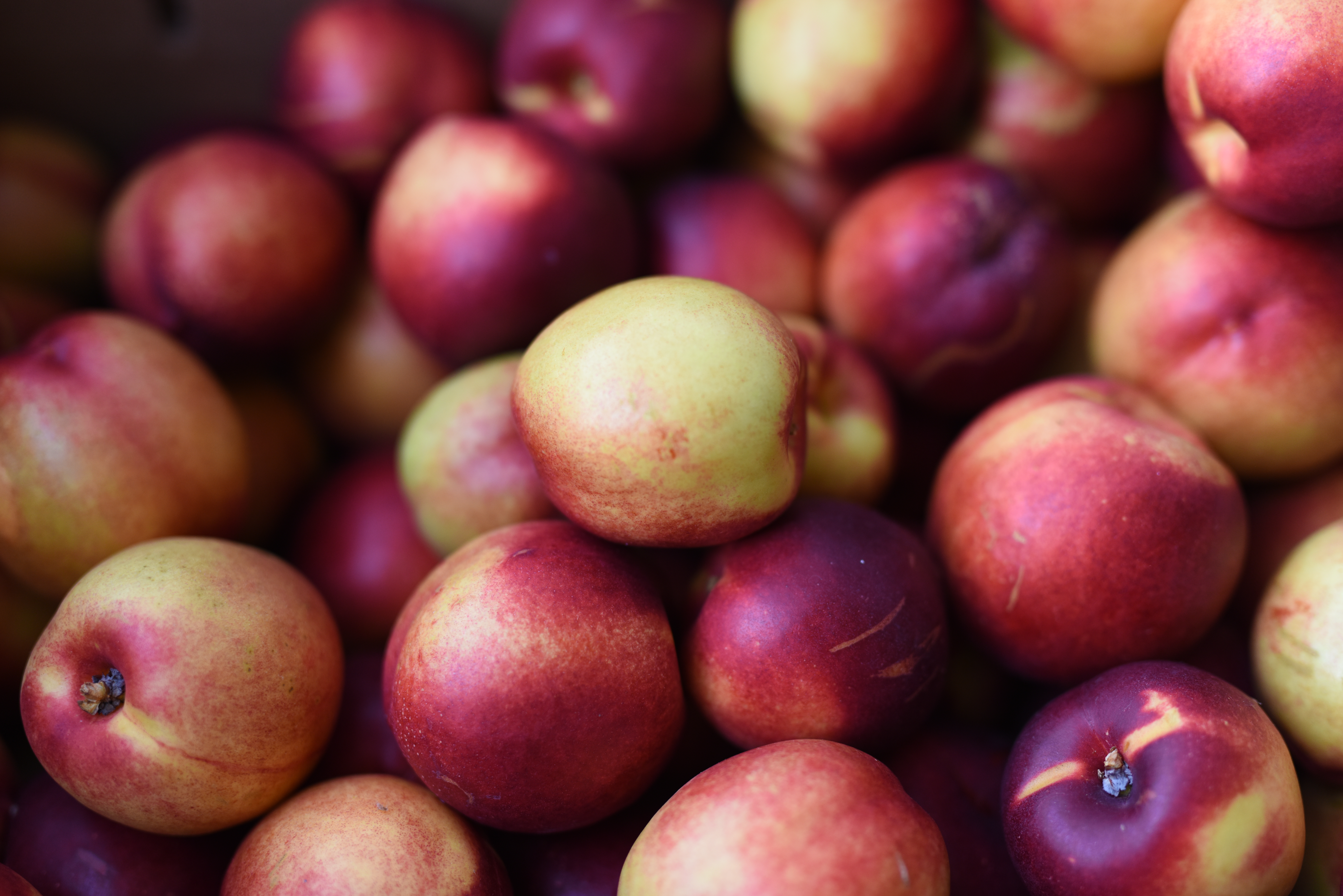 Farmer's markets are good to patron because they reduce emissions from food transportation, and use fewer, if any, pesticides.